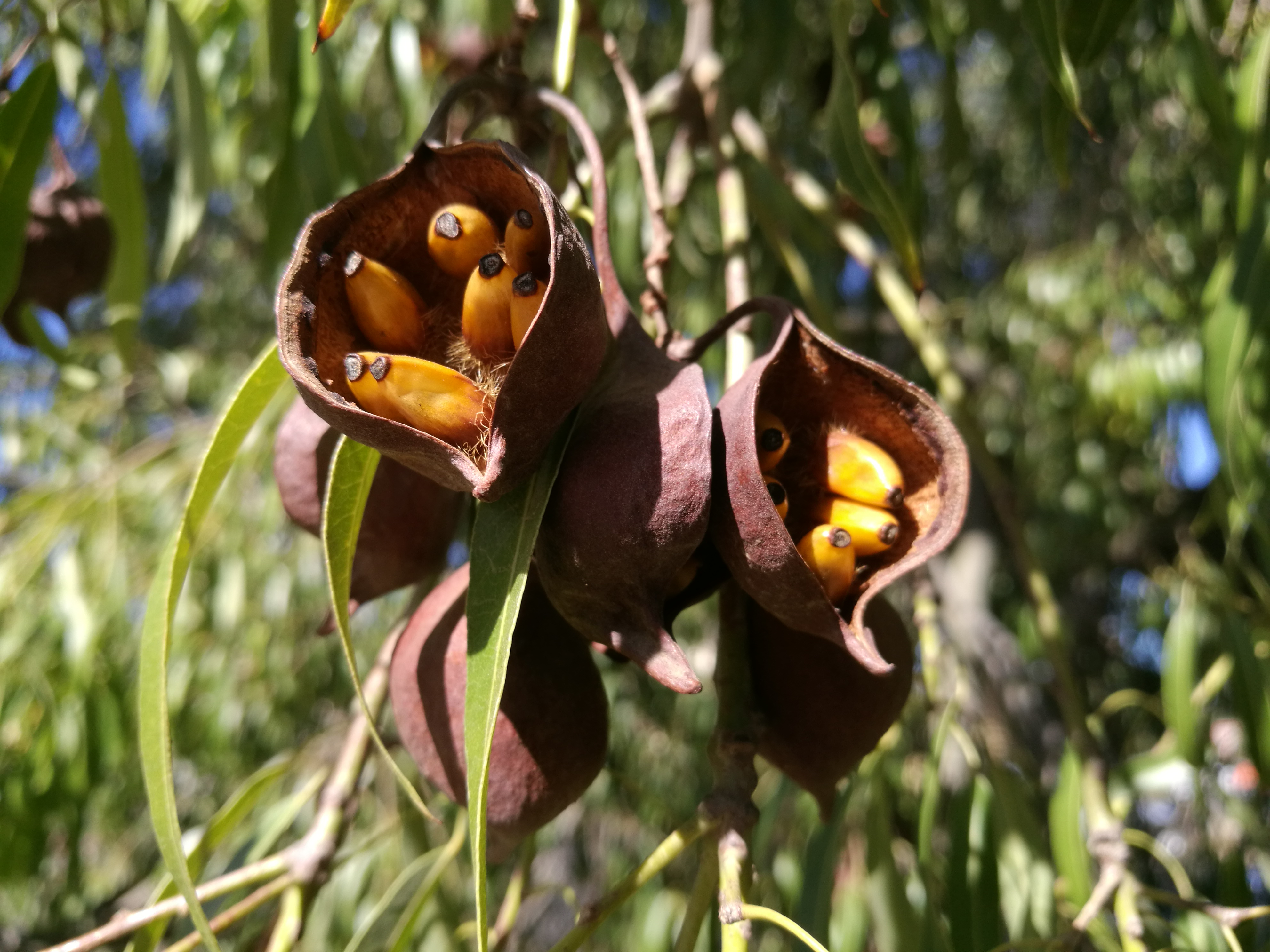 Brachychiton rupestris fruit and leaves, Narrabri, NSW